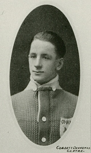 Corbett Denneny of the Toronto Arenas hockey club ca. 1917–1918